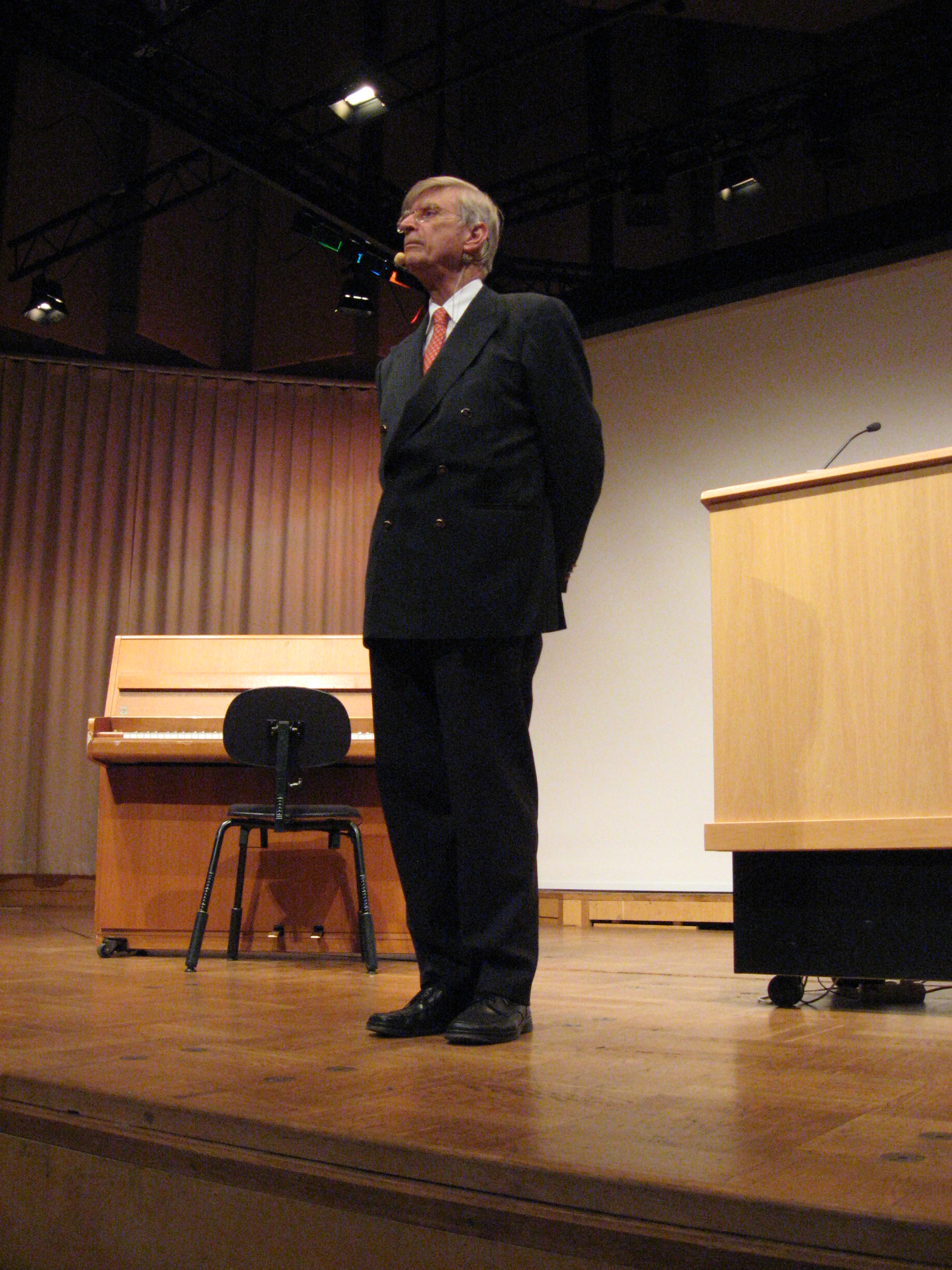 Herbert Blomstedt giving a lecture on Johannes Brahms choral music in Lund 2008.